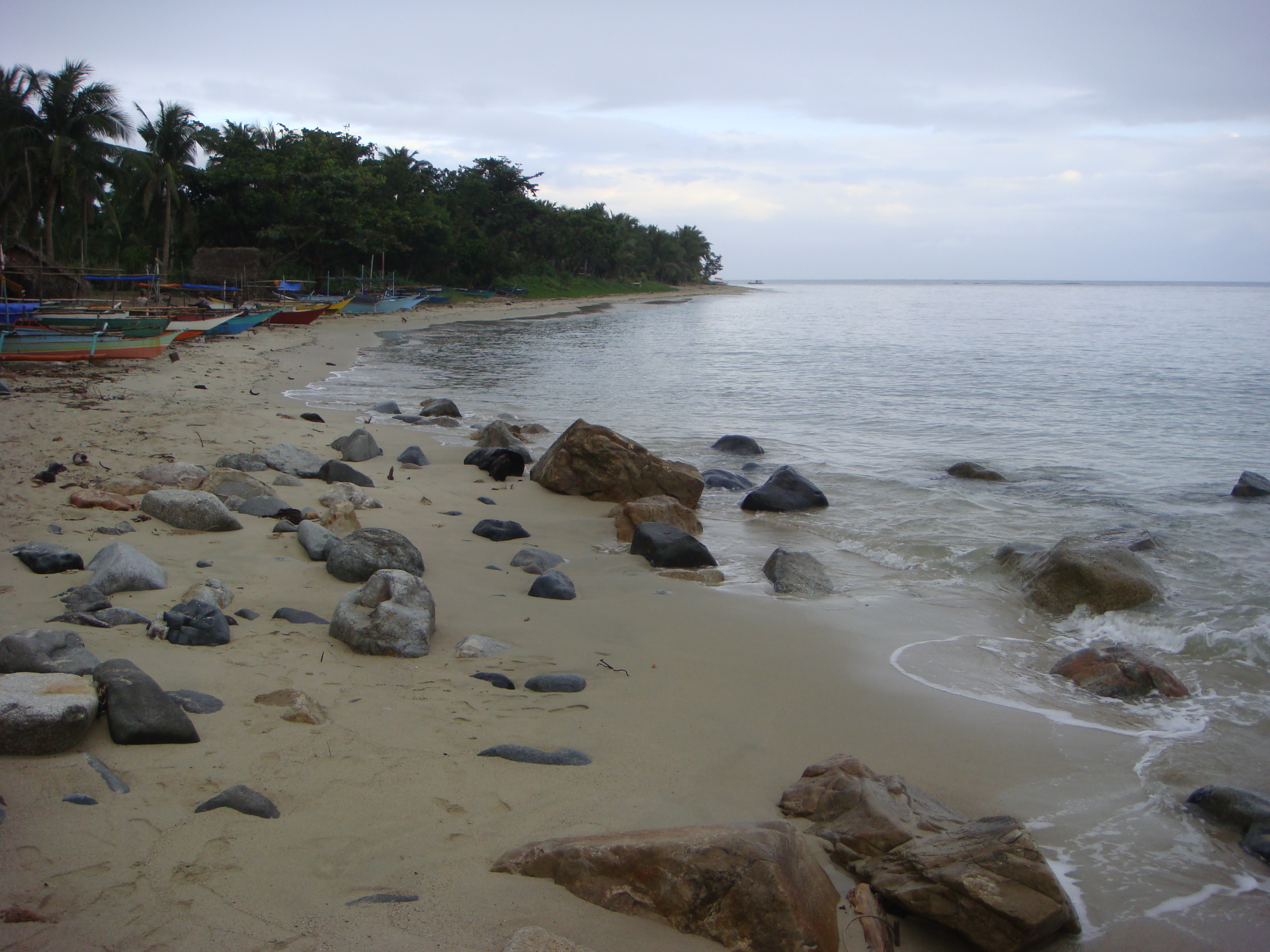 Dinadiawan, Dipaculao, Aurora[1] white beach (a long stretch of clean, fine, golden white sand coastline) is one of the most beautiful beaches in Aurora, with a fabulous view of the Pacific Ocean, the lush, diverse forests of the Sierra Madre Mountain Range, and the rock formation along the shoreline (along the Dicadi Highway);[2](situated north of Baler thru the Dicadi highway, between Luzon’s Sierra Madre Mountain Range & the Pacific Ocean; almost 2 hours away from Aurora’s capital town, Baler)